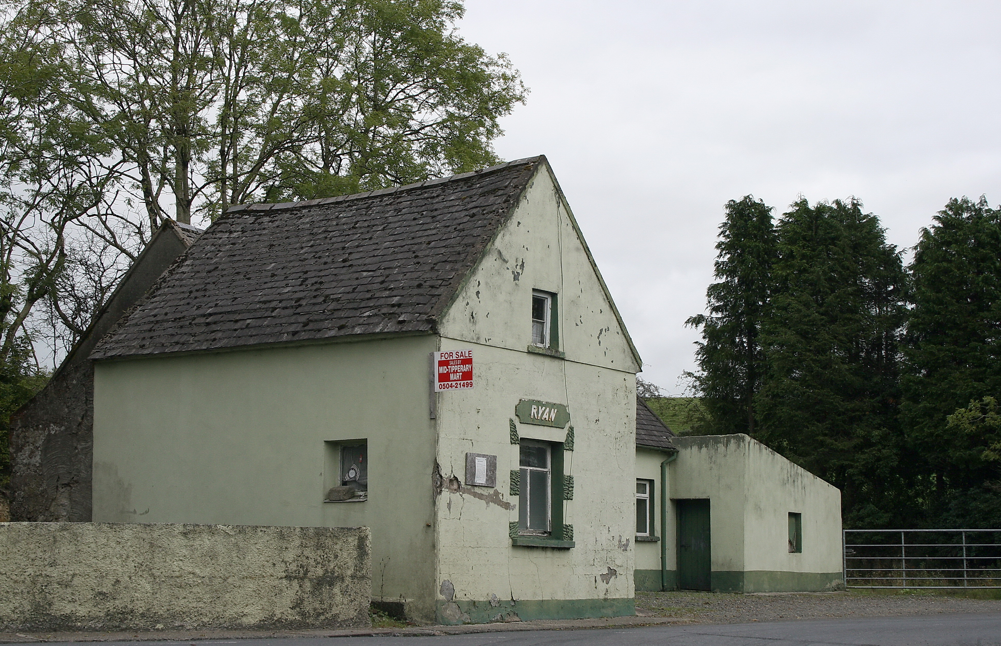 Closed-down rural pub at Milestone, County Tipperary, Ireland